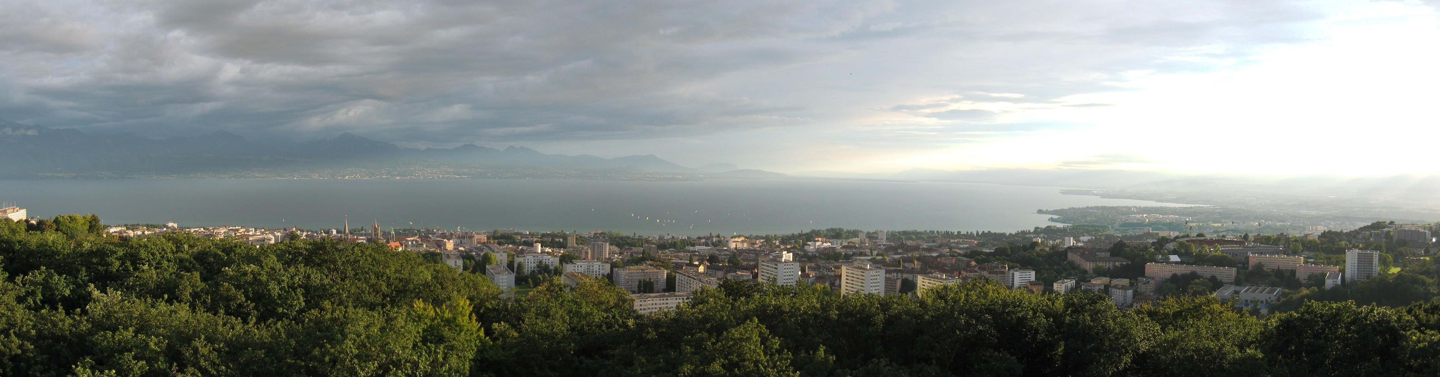 Lake Geneva seen from Sauvabelin's tower in Lausanne (Switzerland). Three photos taken on 2007-08-22 at 07:53 pm, stitched together with Hugin.